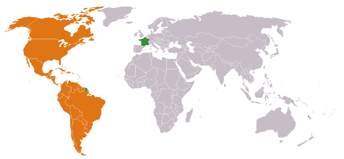 France and Americas